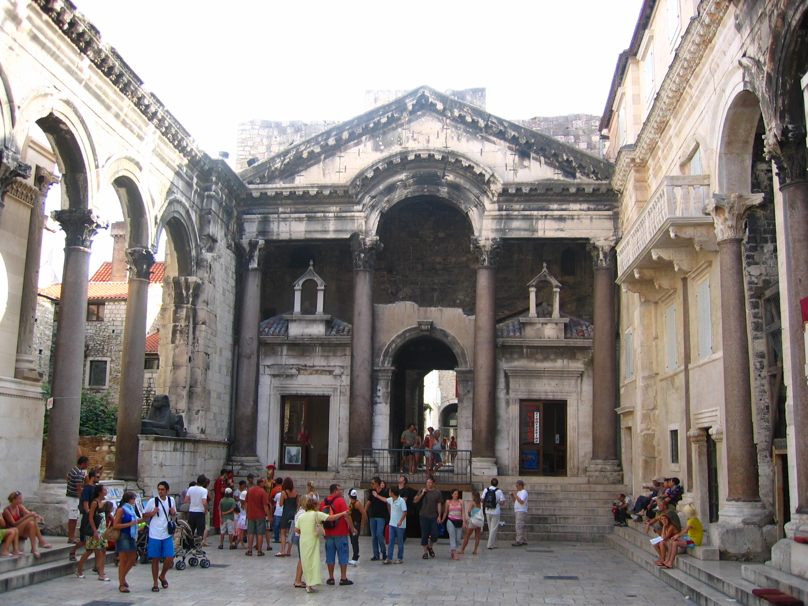 Interior of Diocletian's Palace, Split, Croatia